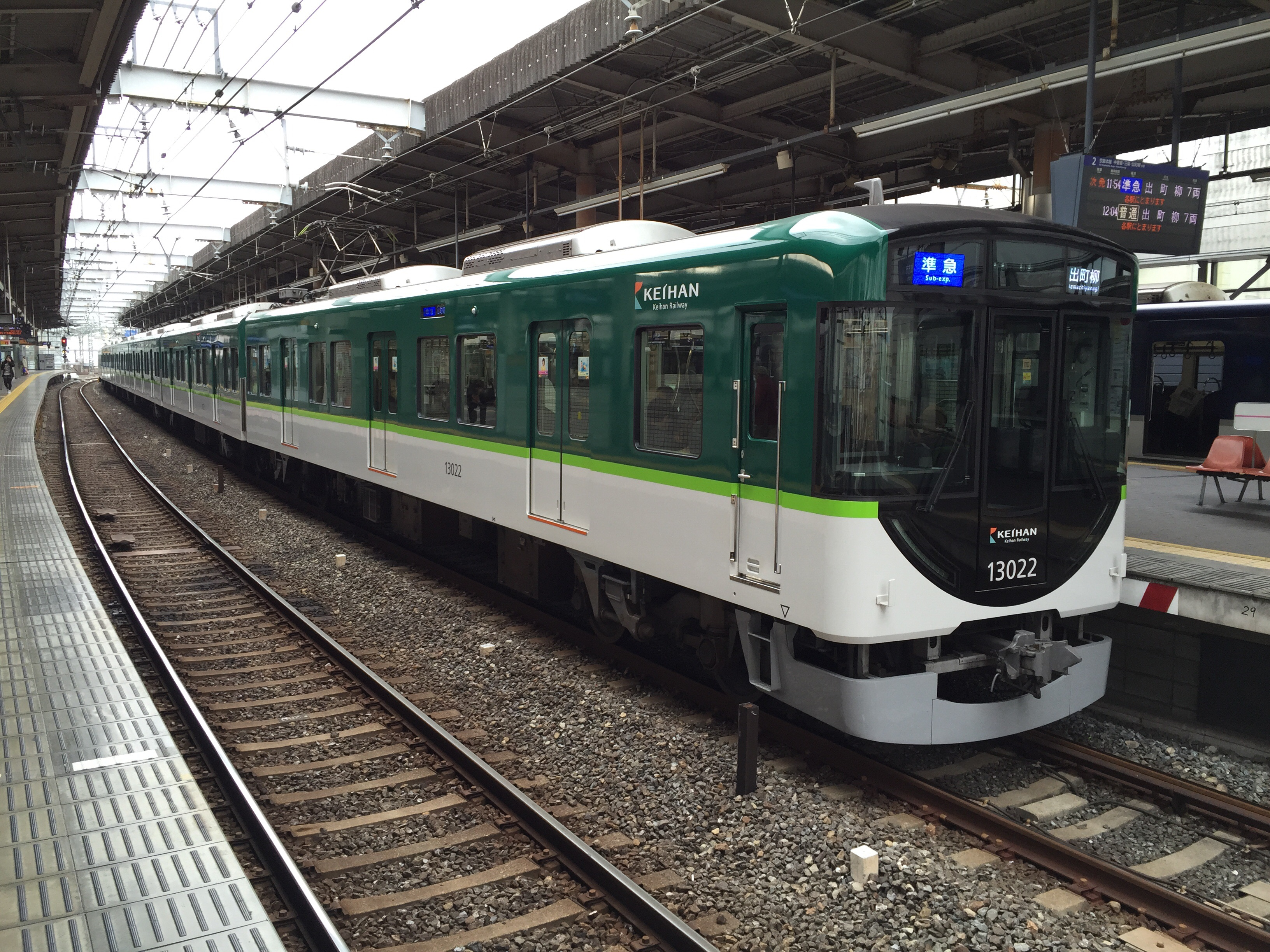 Keihan 13000 series 7-car EMU set 13022 on a sub-express service at Hirakatashi Station